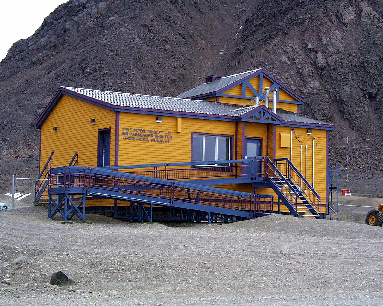 The new terminal building in Grise Fiord, Nunavut, taken July 2000 (CYGZ).